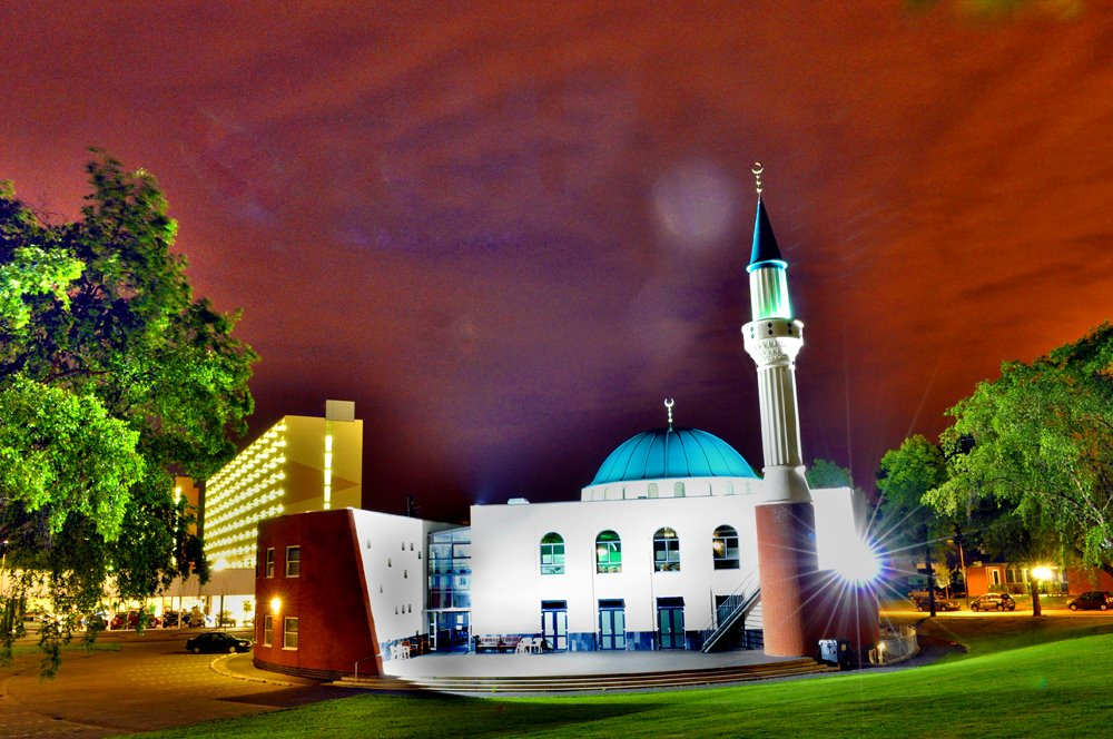 The Ulu Mosque in Bergen op Zoom, the Netherlands. Built in 2009